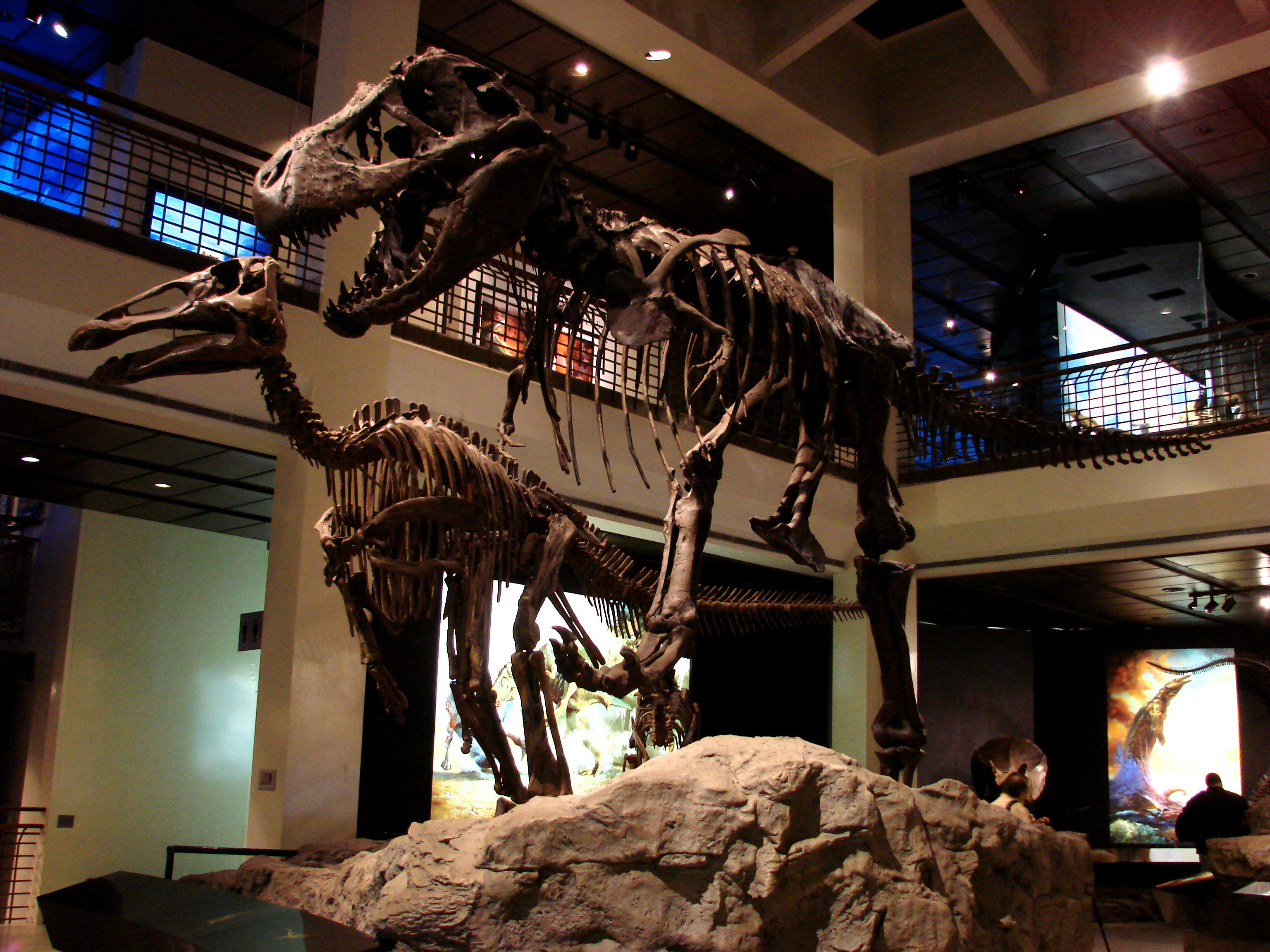 Paleontology "Assignment Houston #2" "HMNS R13"